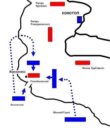 Battle of Konotop. The second stage